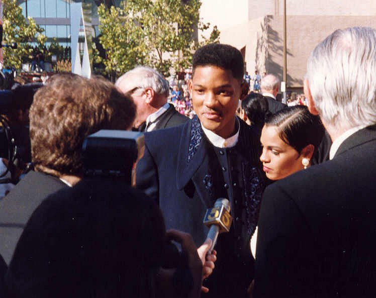 Will Smith on the red carpet at the Emmy Awards 1993.